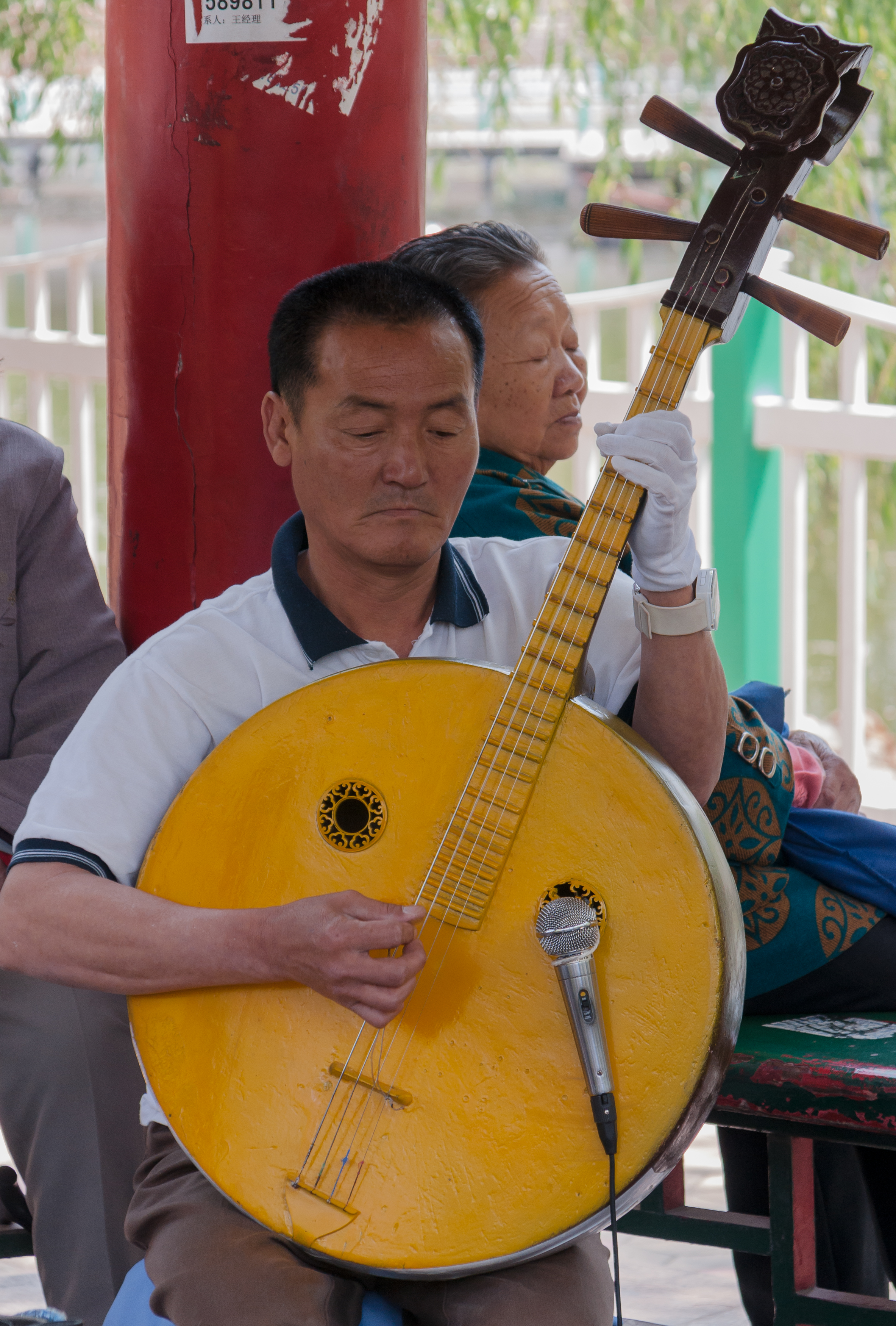 Dalian Liaoning China: A man, playing a Ruan in Dalian Labour Park